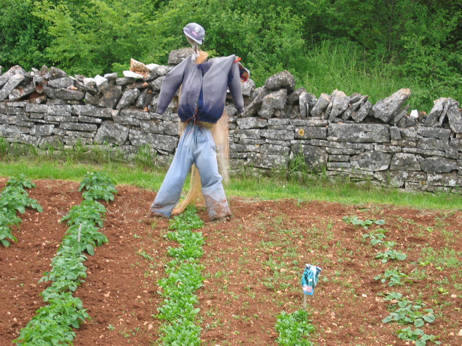 Scarecrow in Croatia (Istra)